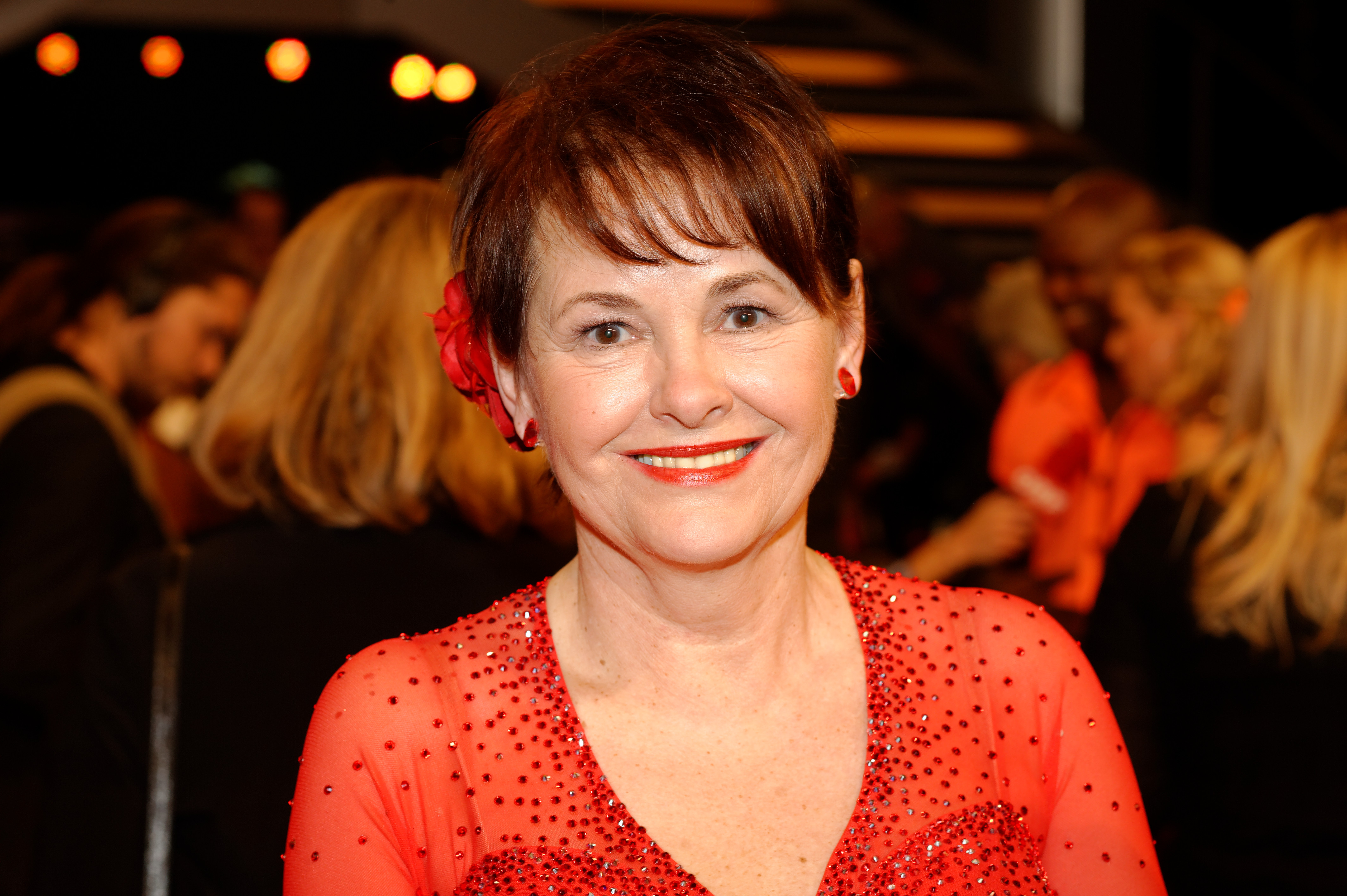 "Dancing Stars" am 5. April 2013 The making of this work was supported by Wikimedia Austria. For other files made with the support of Wikimedia Austria, please see the category Supported by Wikimedia Österreich. Monika Salzer